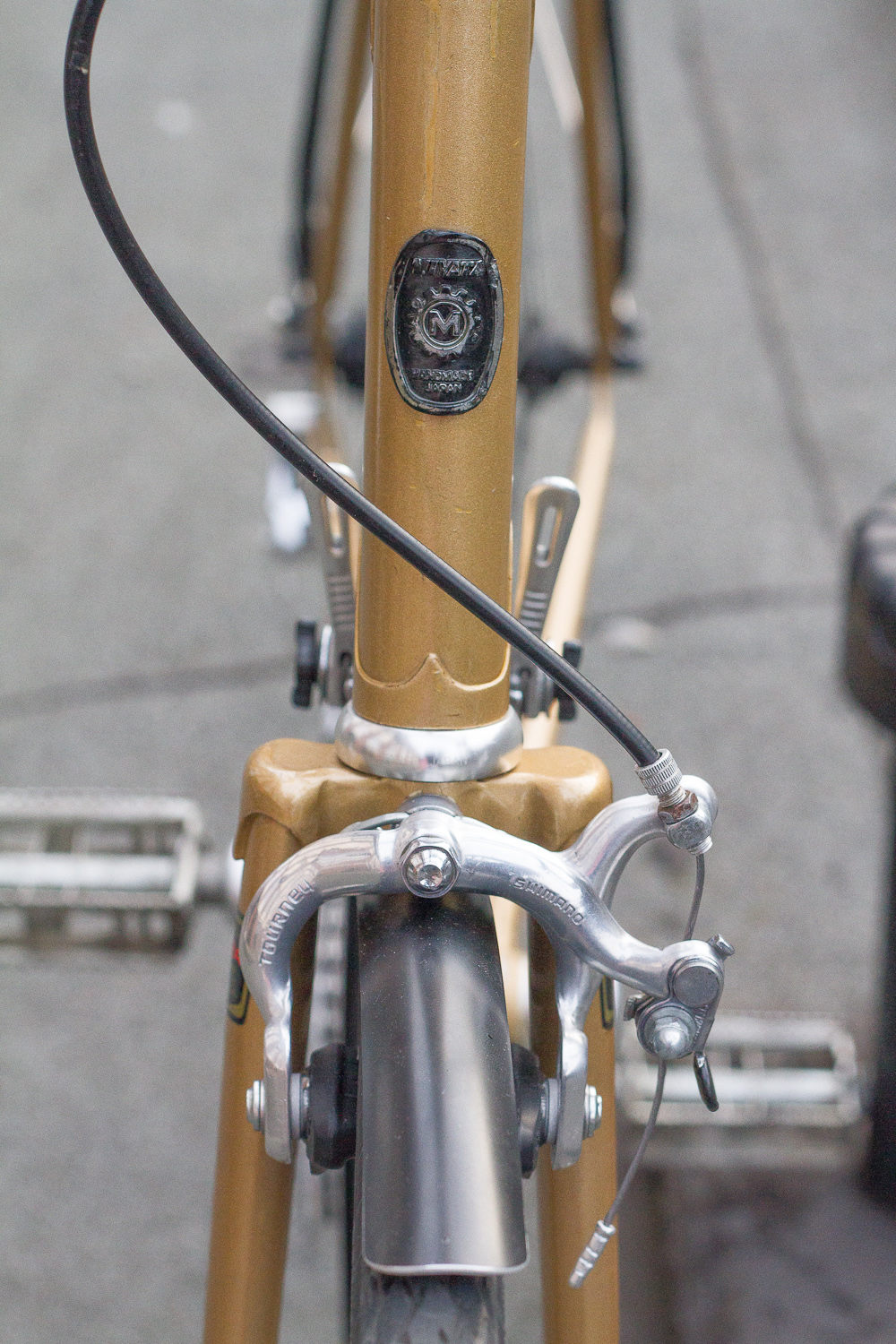 Shimano Tourney brake calliper of Miyata 760SR